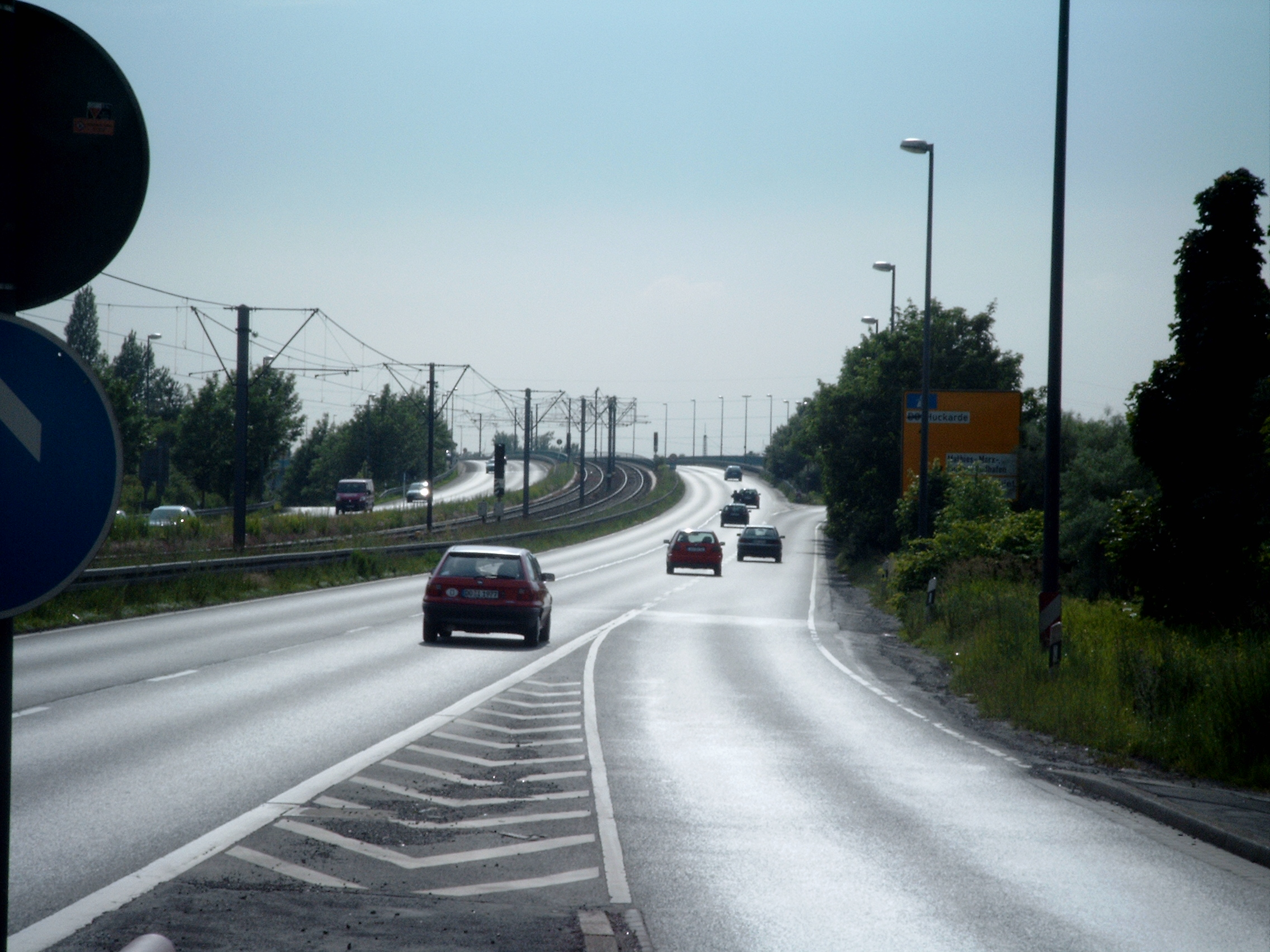 A big Street near Dortmund harbour, Germany